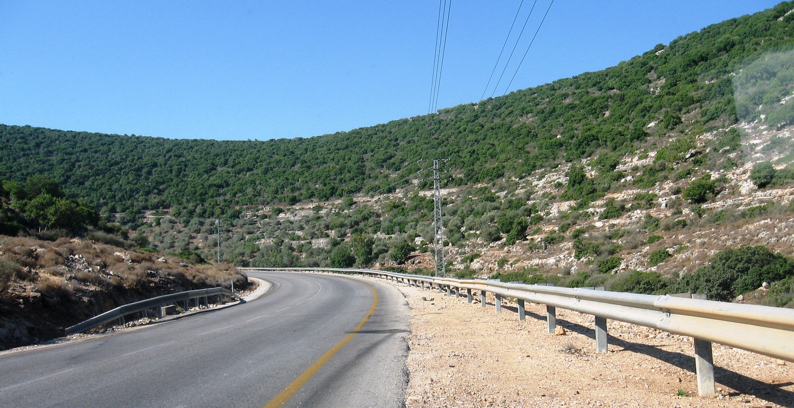 Road_5066